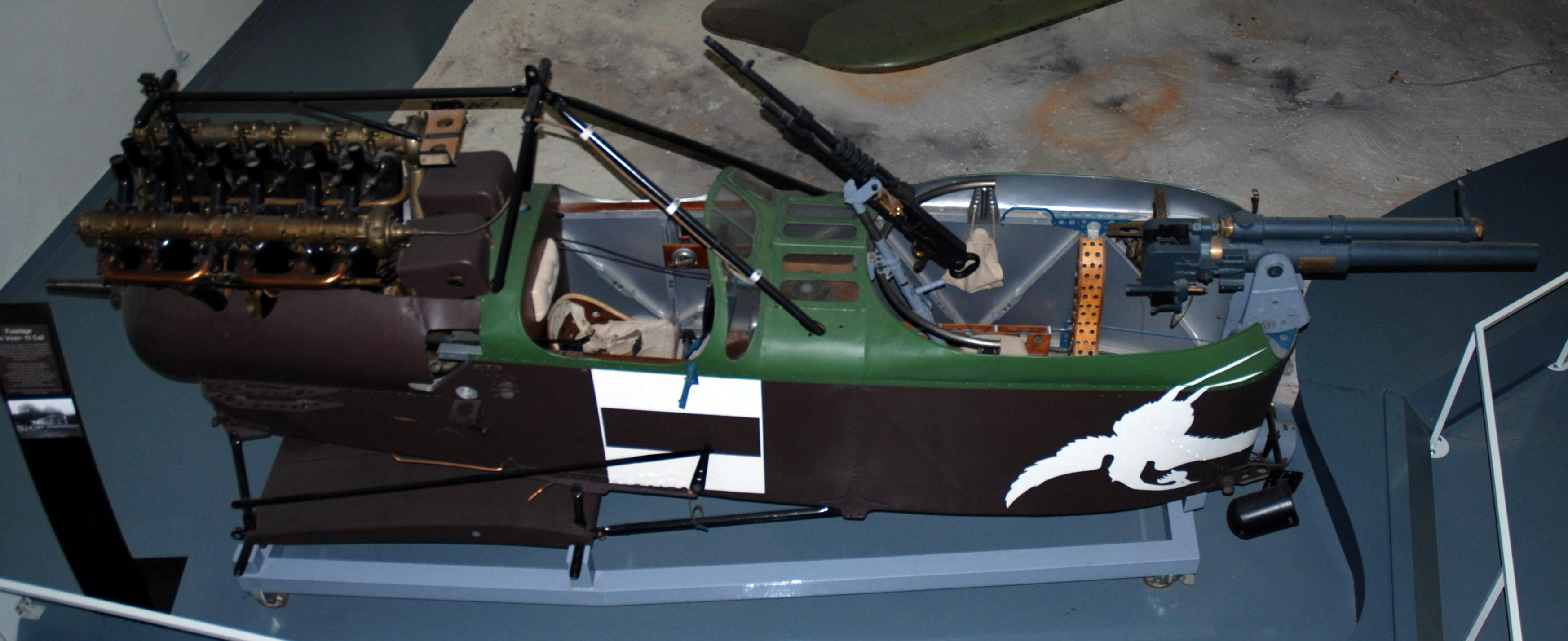 Photo ref; Nikon-D80-2013-DSC_1072 (Edited)